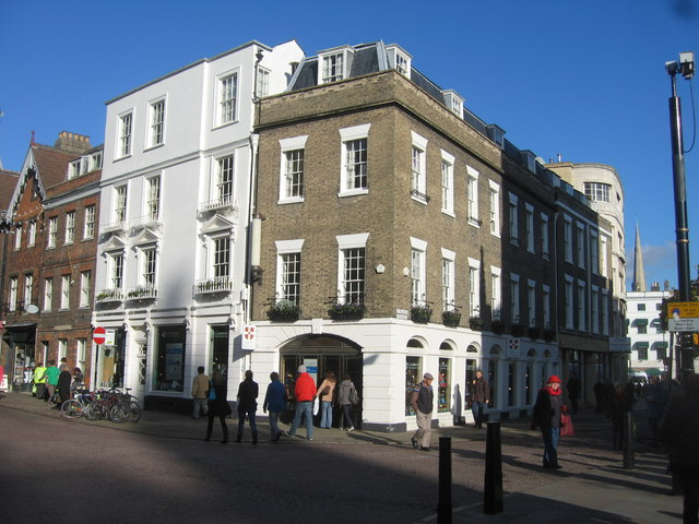 Cambridge University Press shop St Mary's Street / Trinity Street corner.